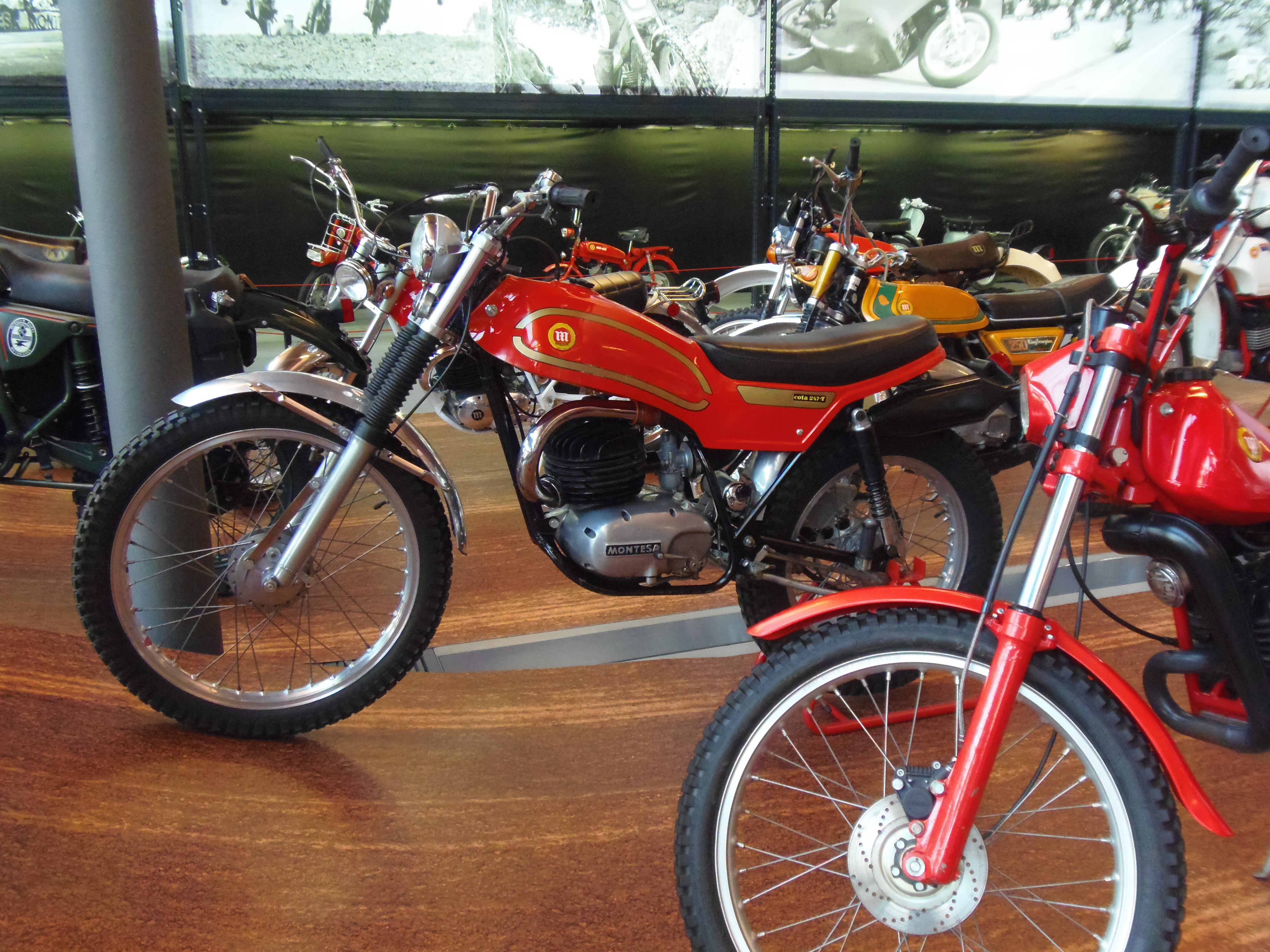 Montesa Cota 247-T 1974 left